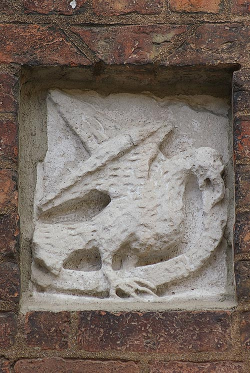 Sculpture St. John, St. Peter church, Malmo, Sweden, about 1460.